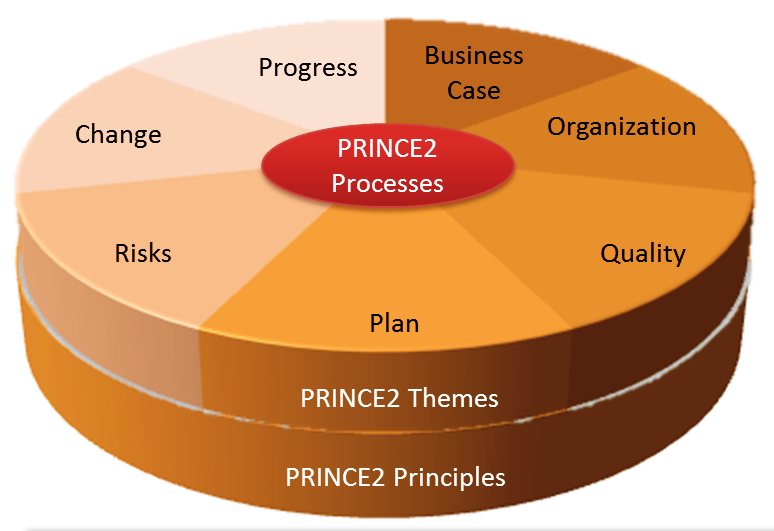 PRoject IN Controlled Environment (version 2) is UK Government approved methodology. Practitioners of this methodology require prior certification and accreditations. It is a thorough methodology with well defined processes in the core. PRINCE2 is primarily used for large scale real estate projects